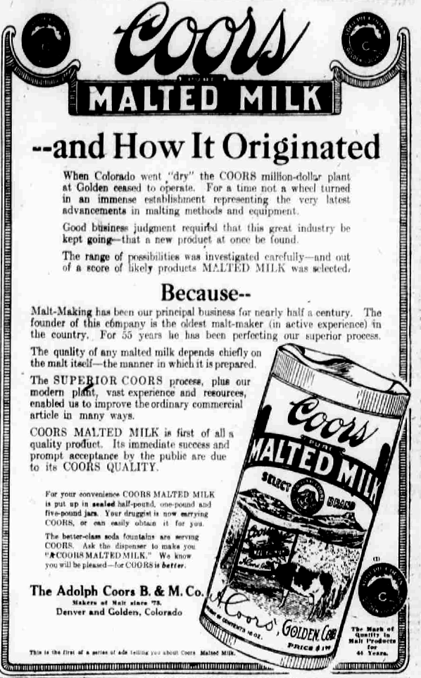 Newspaper ad for Coors Malted Milk, produced by the Coors Brewing Co. after prohibition in Colorado, from 1918.